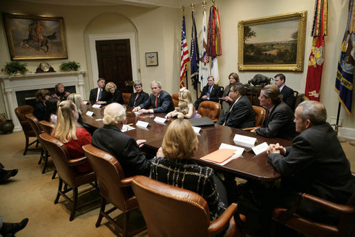 President George W. Bush meets with organizations that support the U.S. Military in Iraq and Afghanistan in the Roosevelt Room, Friday, October 20, 2006. White House photo by Eric Draper